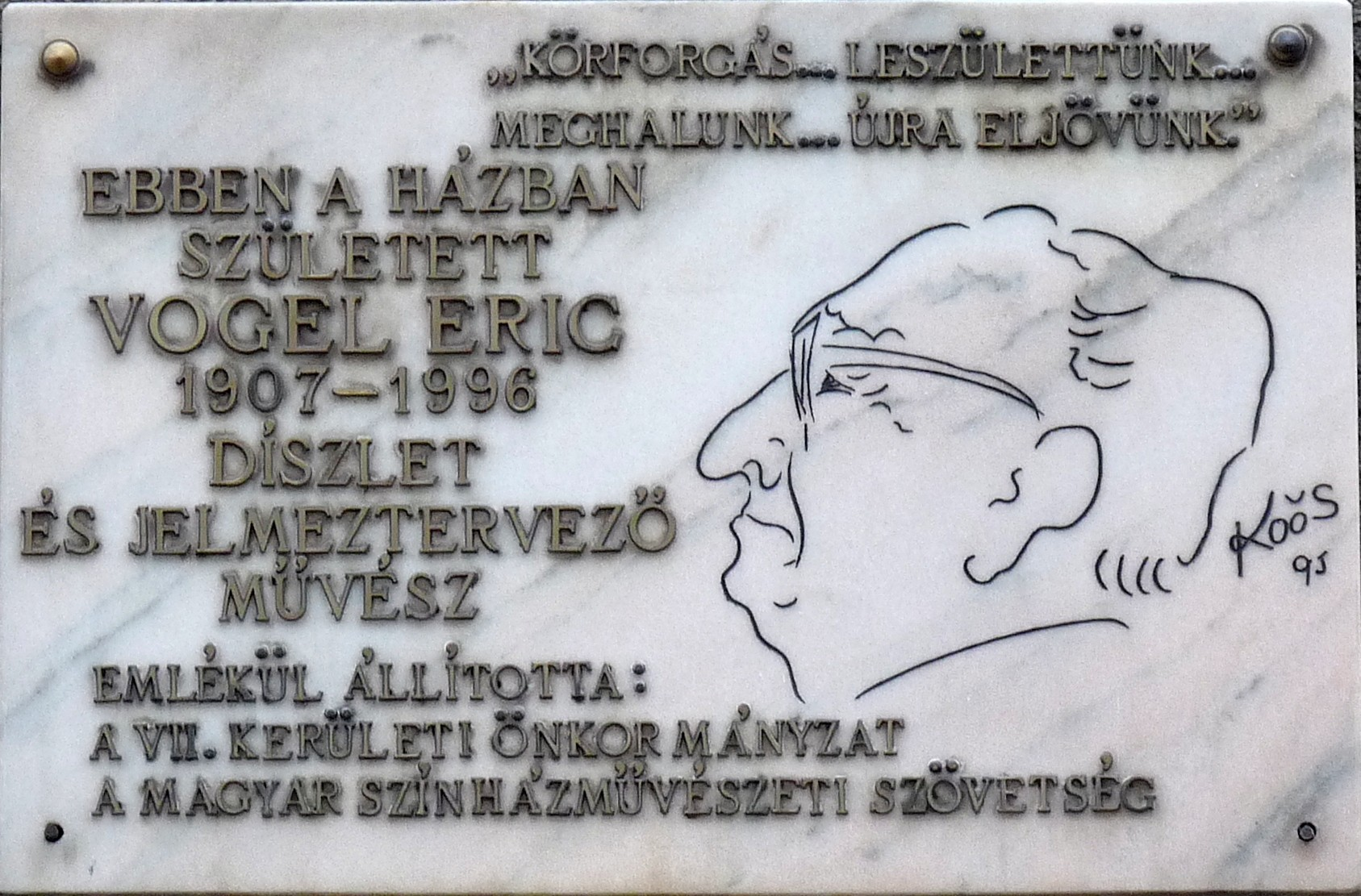 Eric Vogel (1907-1996) commemorative plaque in Budapest District VII, Marek József Street No 4.